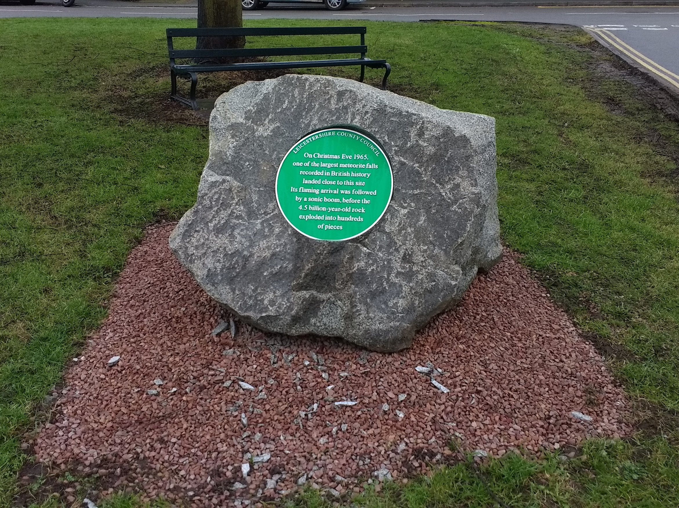 Barwell Meteorite Green Plaque, situated in Barwell, Leicestershire. Plaque was produced and unveiled by Leicestershire County Council in December 2016.